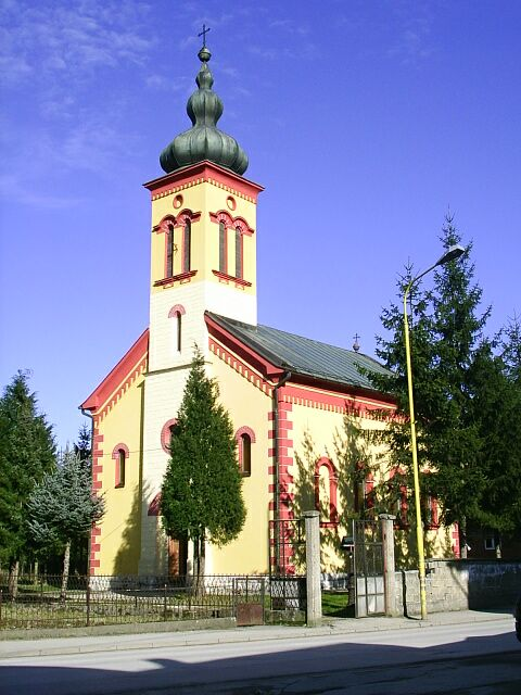 Catholic church in the town of Žepče, Bosnia and Herzegovina